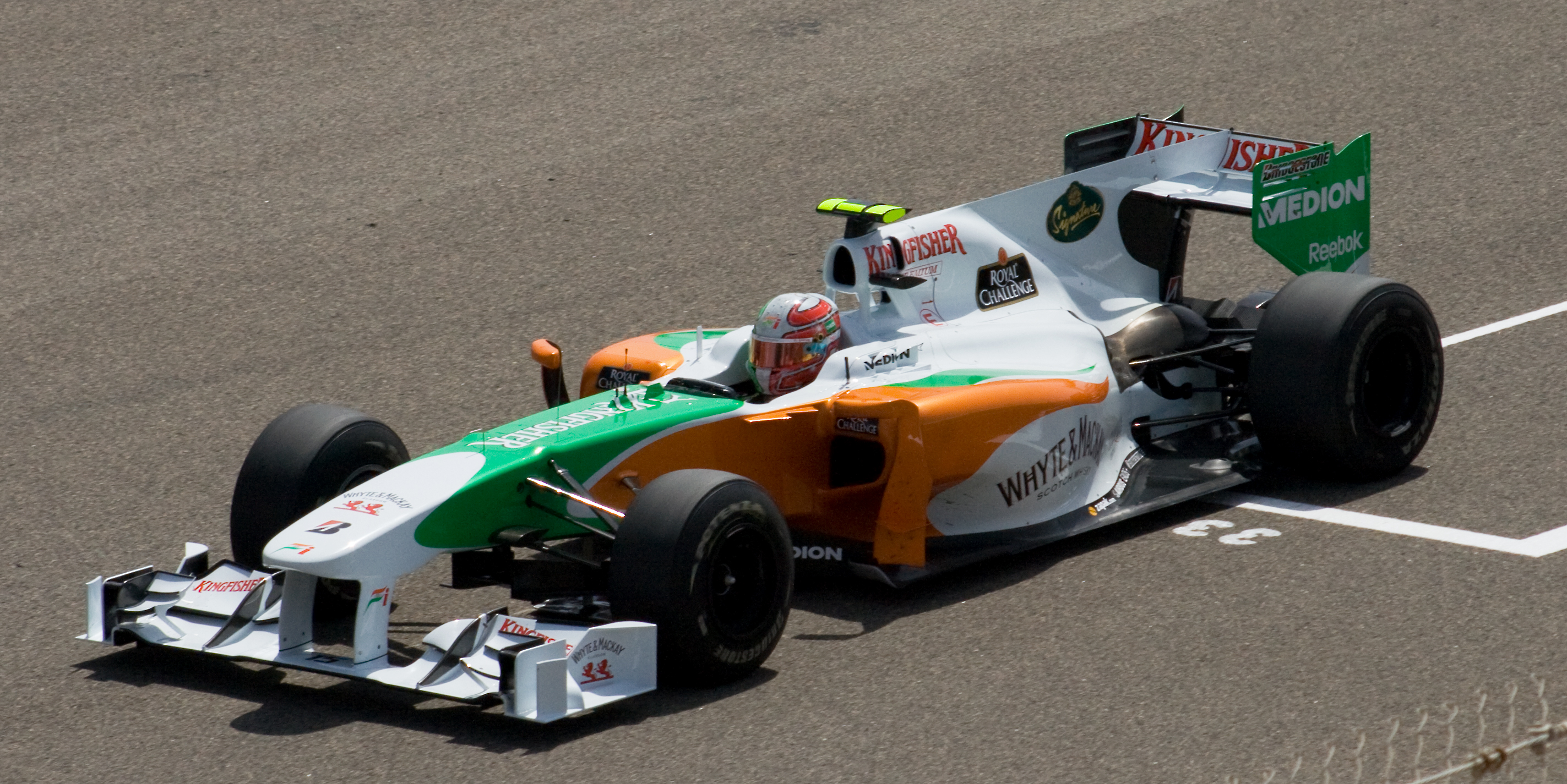 Is this Adrian Sutil driving? If you know, please post a comment.